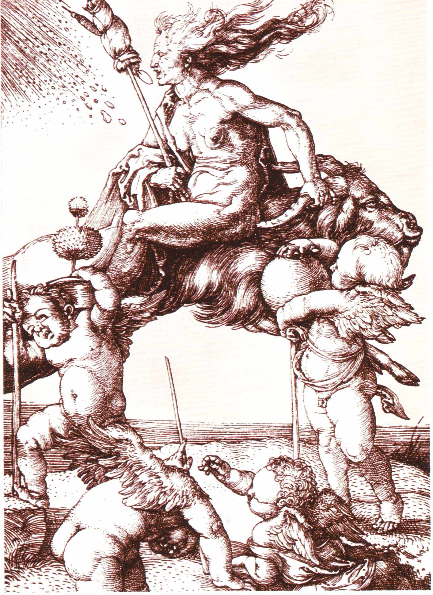 Witches' Sabbath